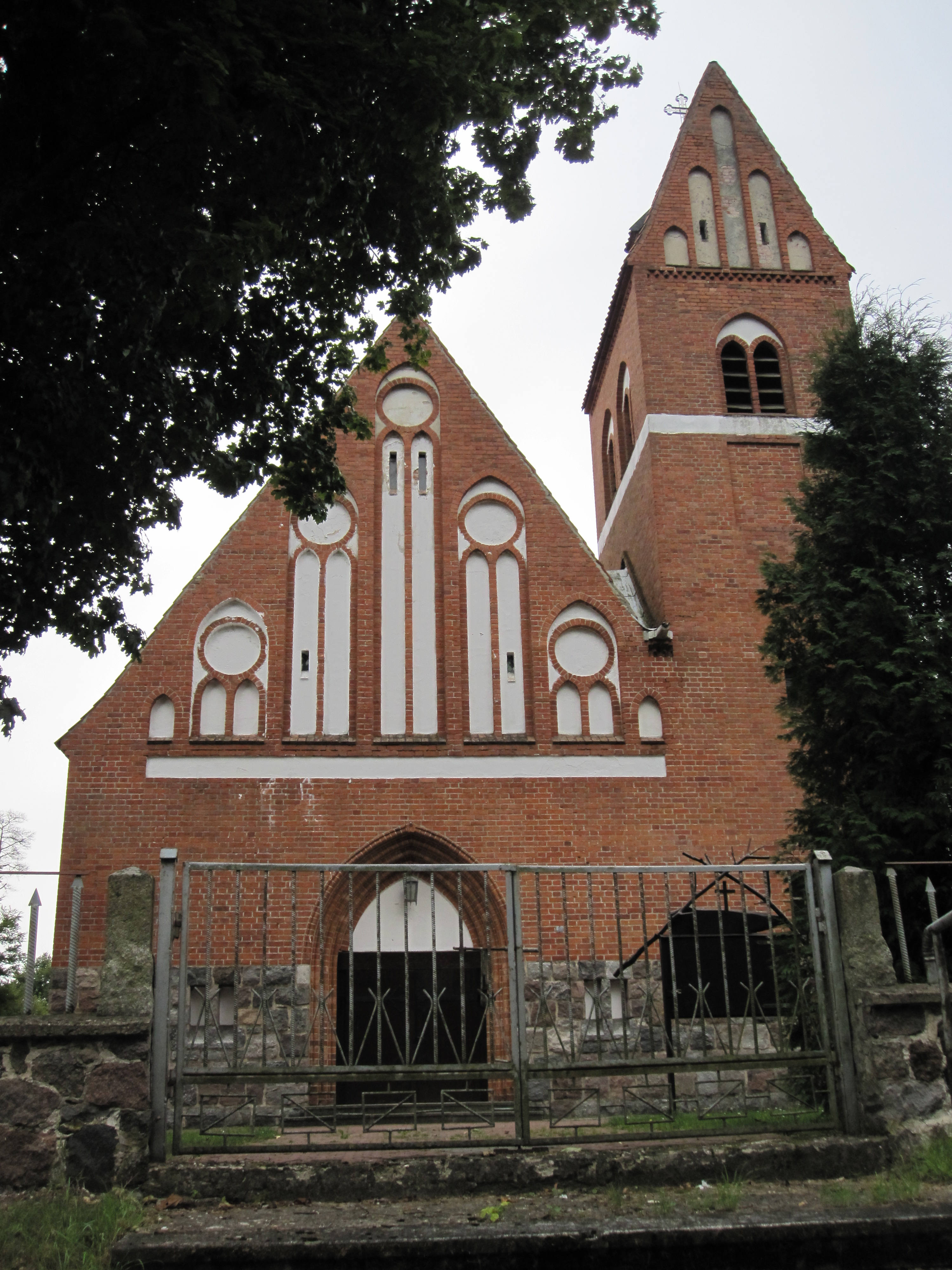 Church of Our Lady of Gietrzwałd in Kociołek Szlachecki